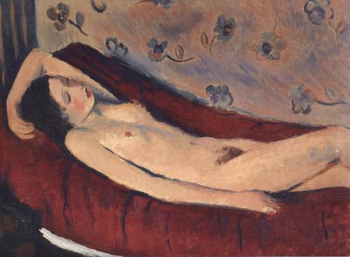 Nudo disteso su fondo rosso